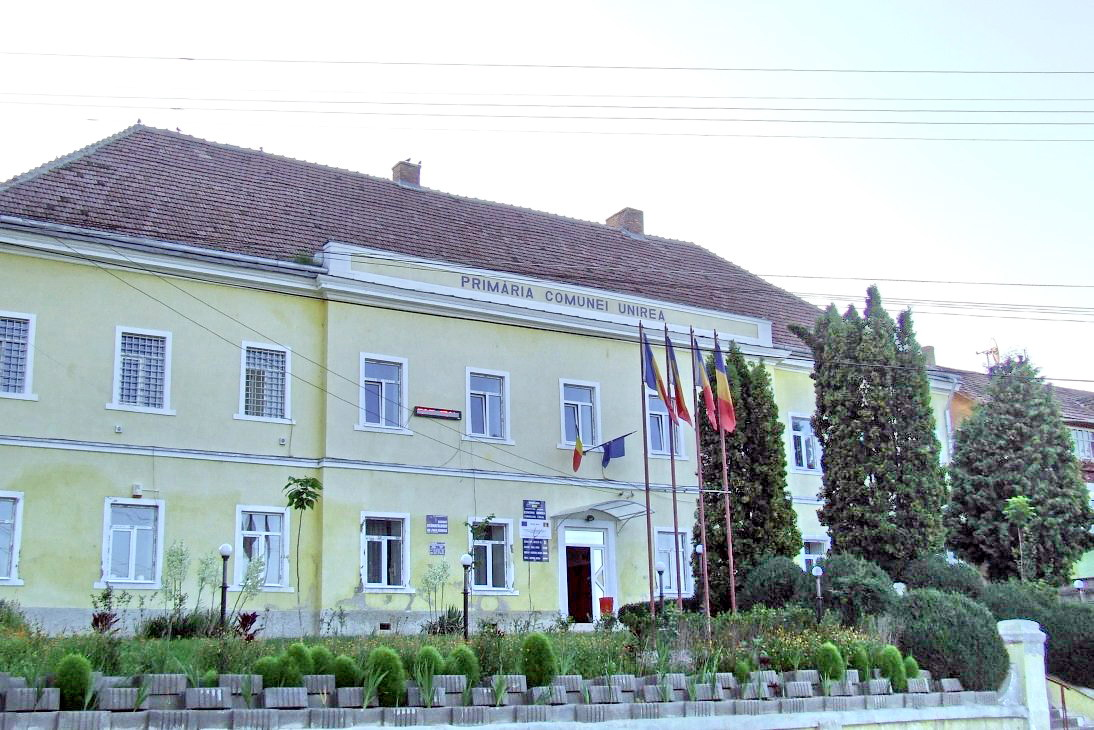 Townhall in Unirea, Alba County, Romania.